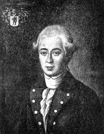 Jean Baptiste van Ockerhout (1751-1822)